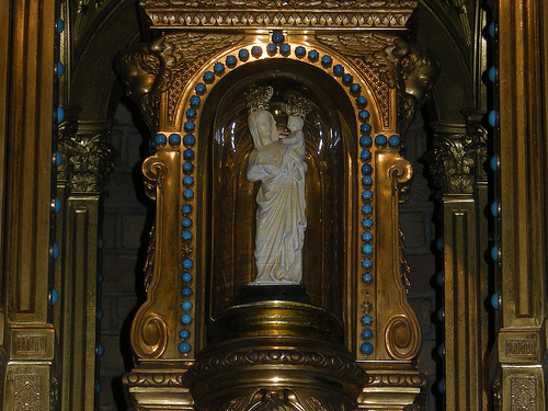 Miraculous statue of Our Lady of Groeninghe in Courtrai (Flanders, Belgium)